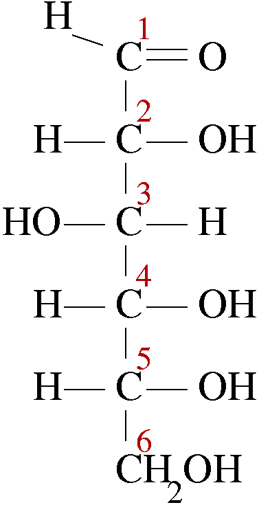 Chemical structure of d-glucose.